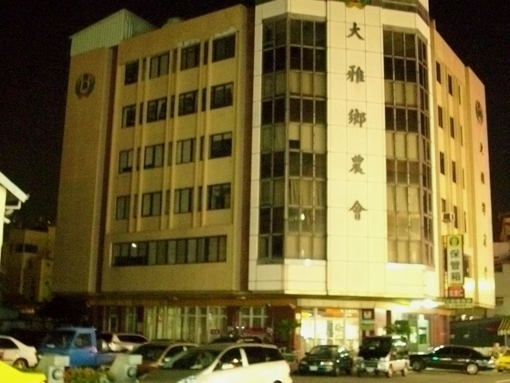 Daya Township Farmers' Association, Taichung County. 中文（台灣）: 台中縣大雅鄉農會。